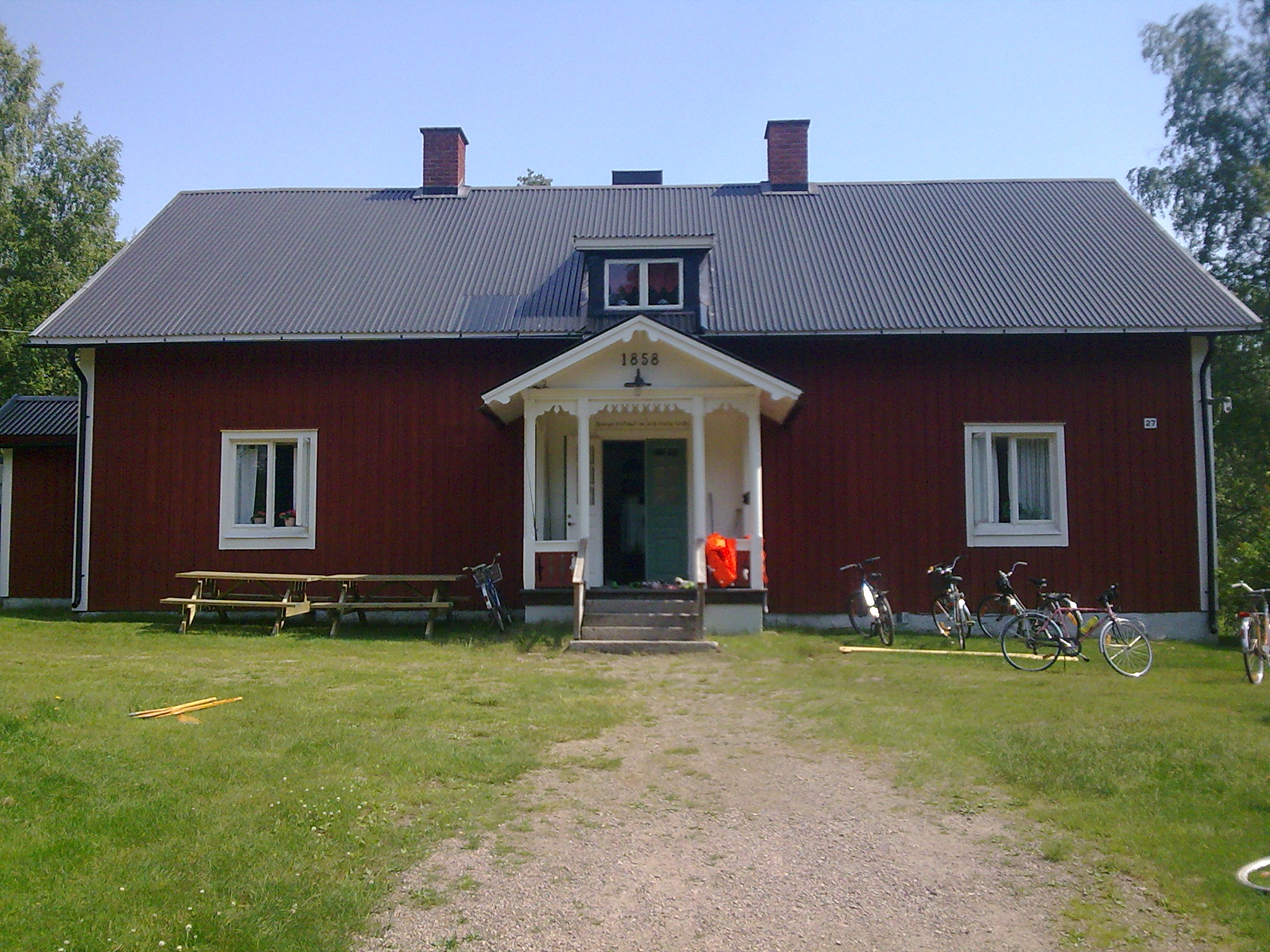 The camphouse at the church of Tyngsjö, Dalarna, Sweden.